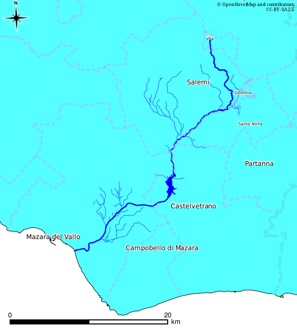 Arena river drainage basin, based on OpenStreetMap data, post-processed in QGis.